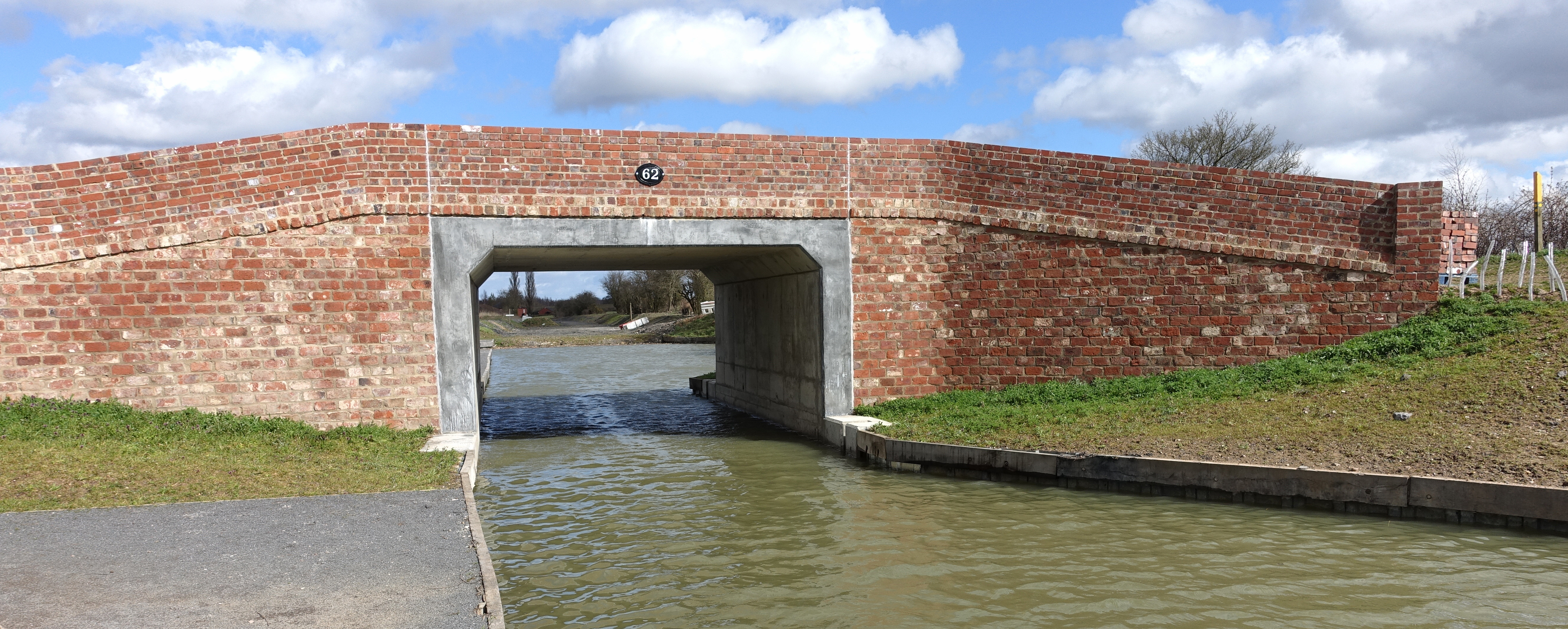 Bridge 62 and the winding hole beyond is the limit of reopening of the Ashby Canal northwards from Snarestone towards Measham. Photographed in March 2016.